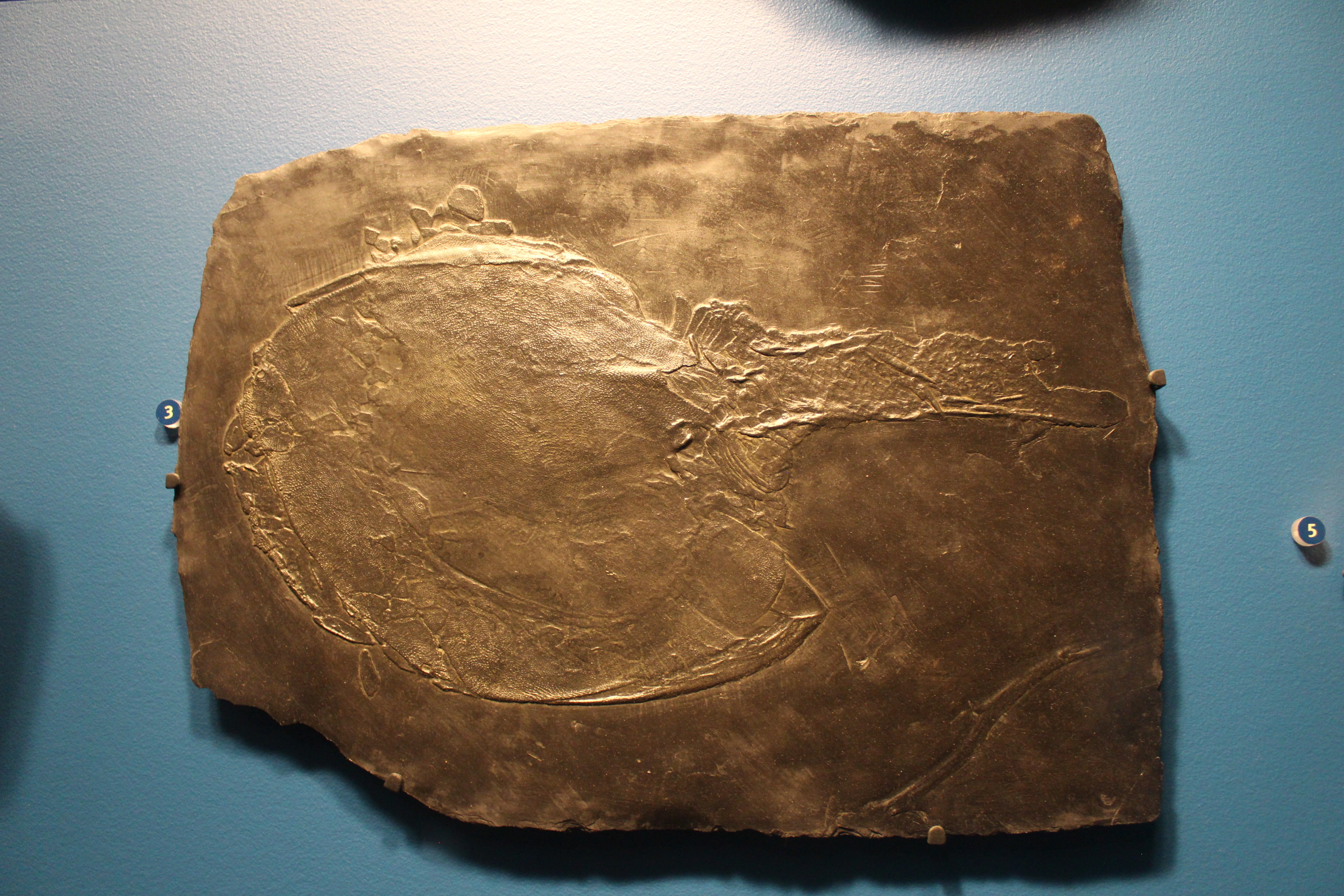 Drepanaspis sp. cast (PF14308) on display at the Field Museum of Natural History.